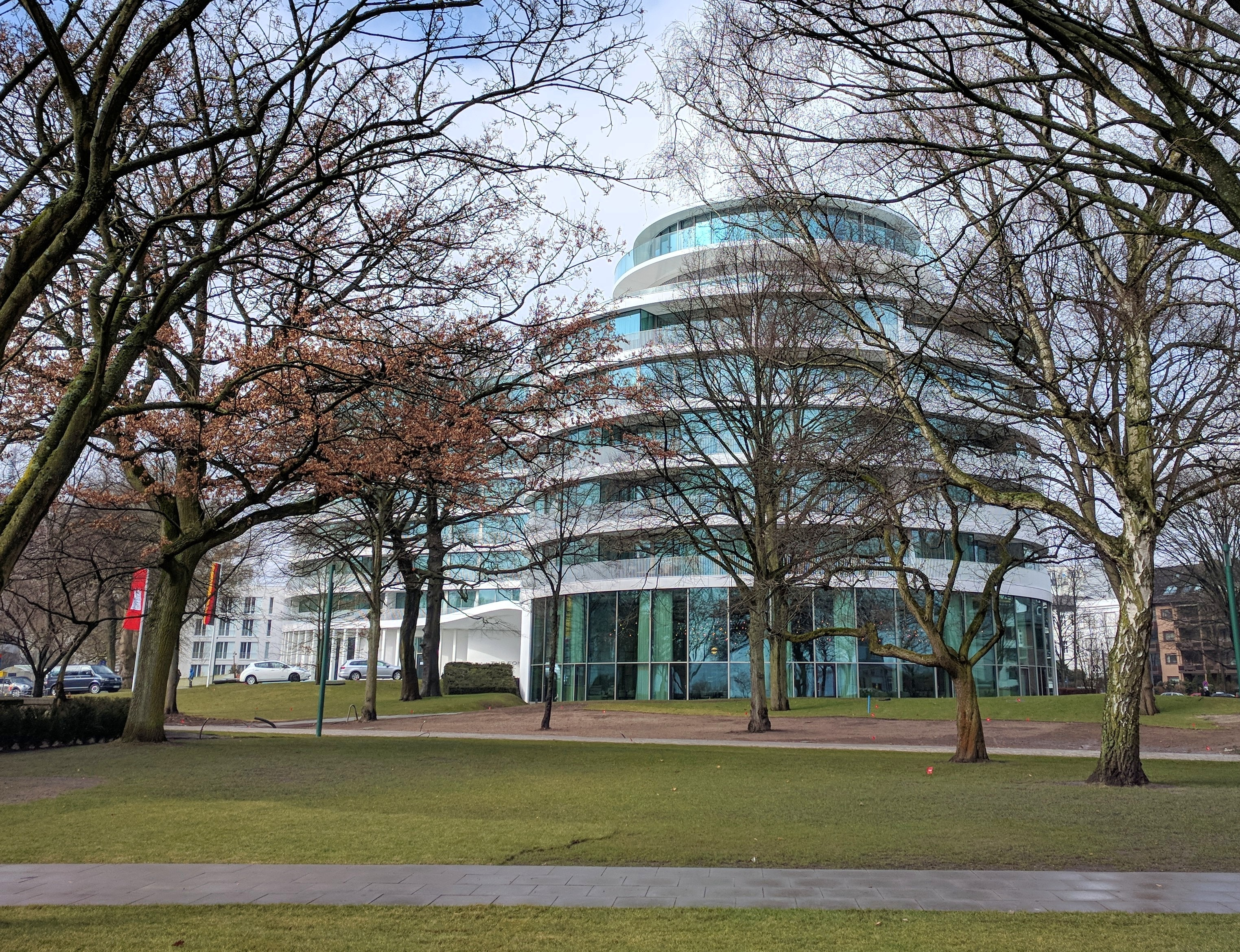 The Fontenay Hamburg Hotel alsterside_eastside pre-opening phase in march 2018